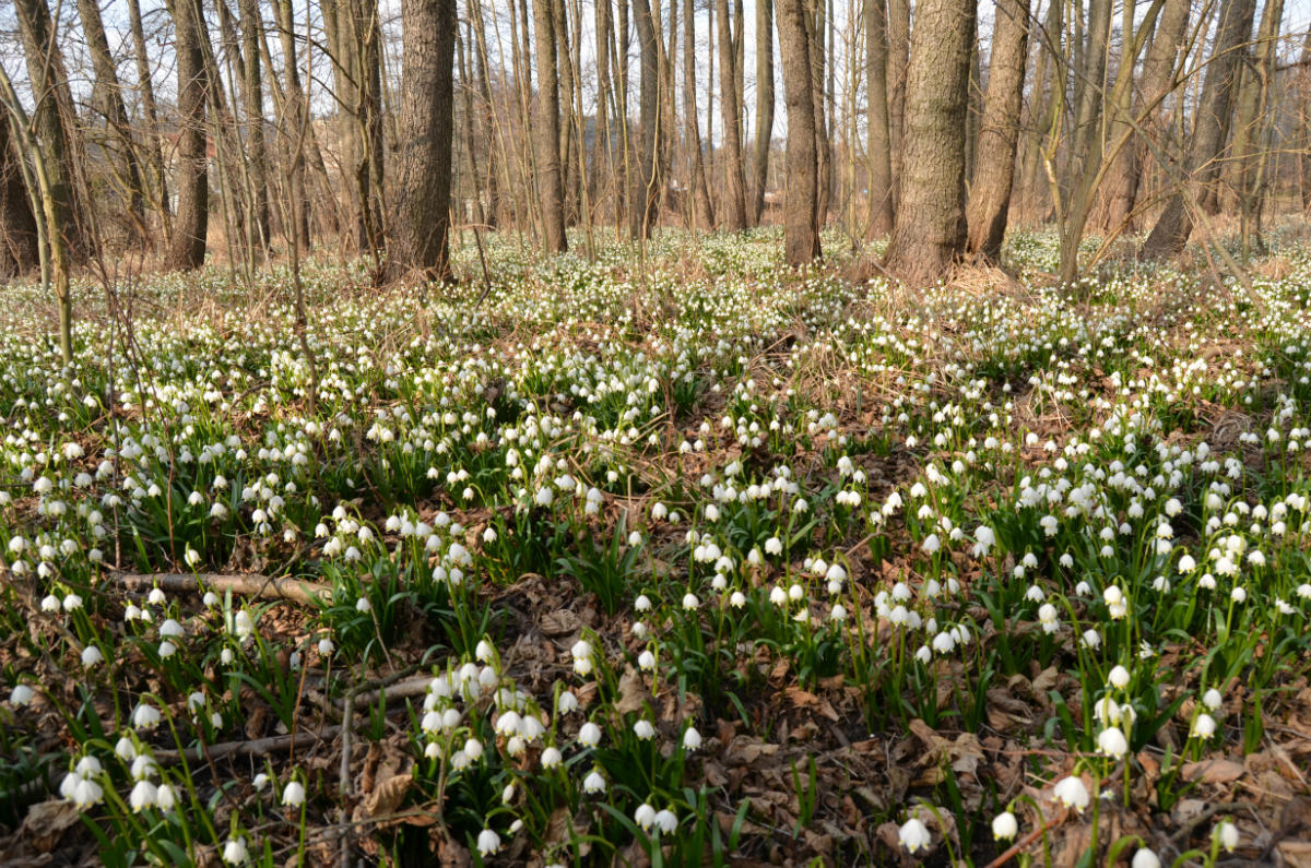 Leucojum vernum. Natural monument Třebechovická olšinka in Kladno District, Czech Republic